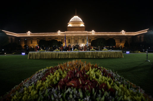 From White House Website President and Mrs. Bush at state dinner in New Delhi.